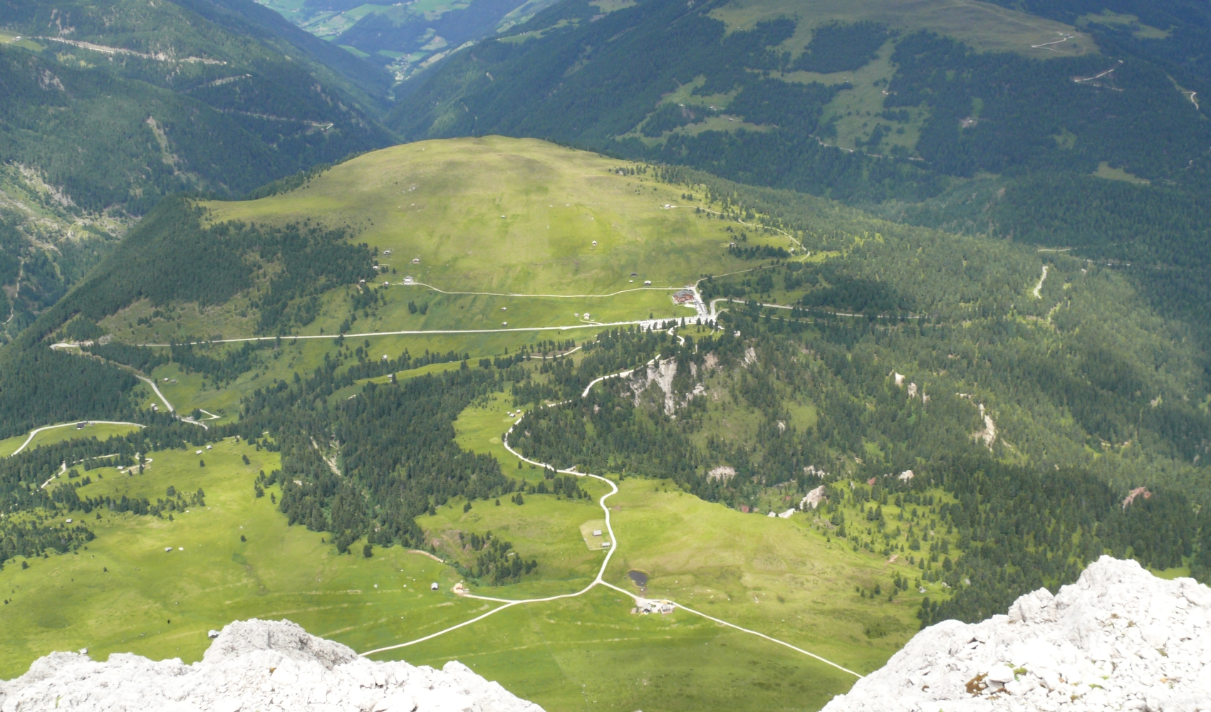 Würzjoch, Dolomites, South Tyrol, Italy